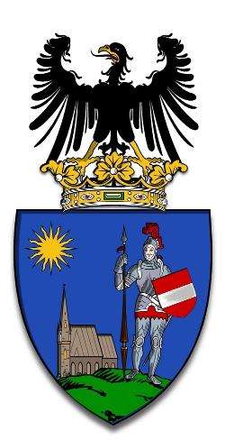 Abaujvar Coat of Arms